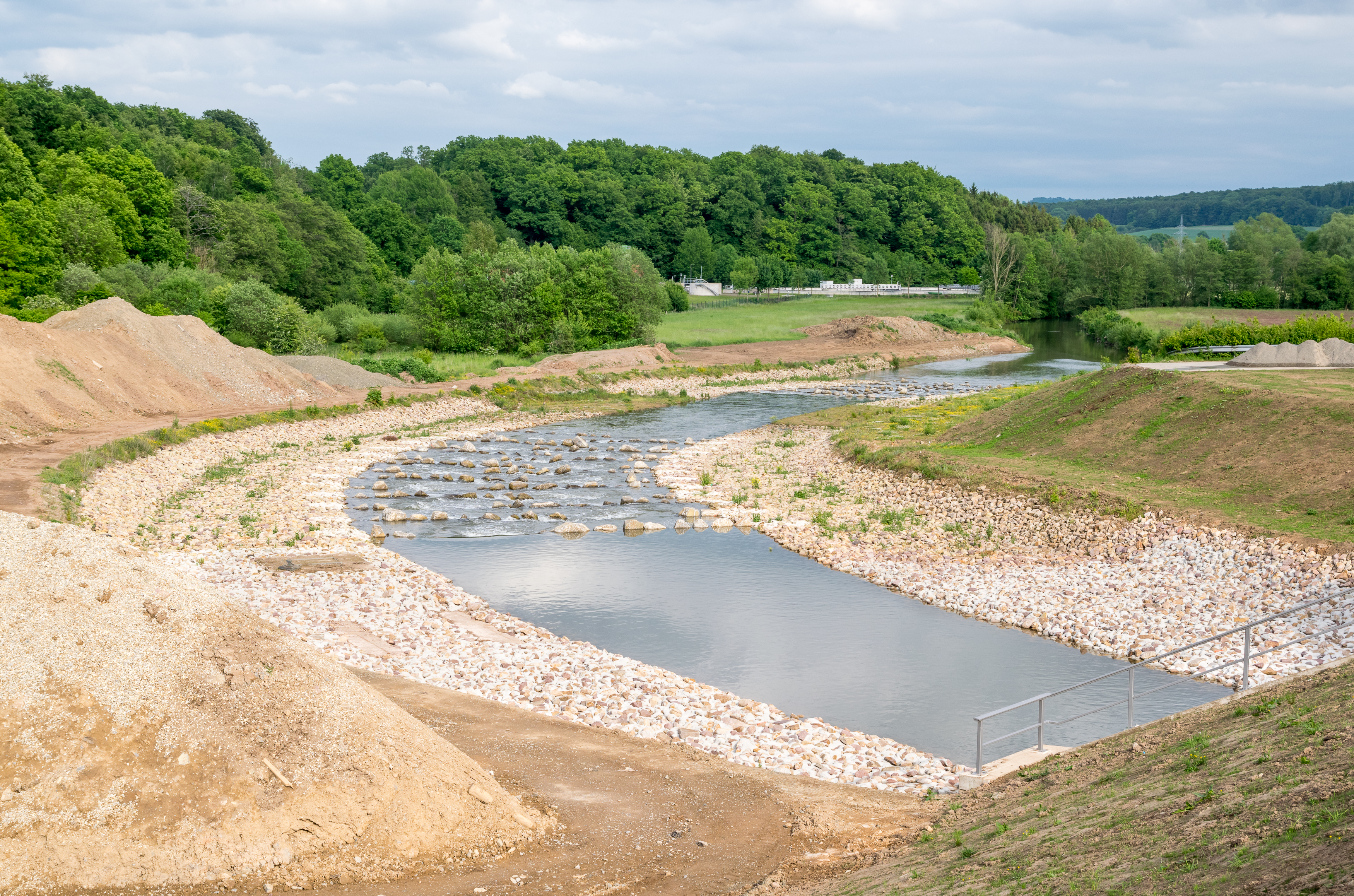 Nature reserve Emmertal (LP) in Schieder-Schwalenberg; bypassing of the Emmer around the reservoir